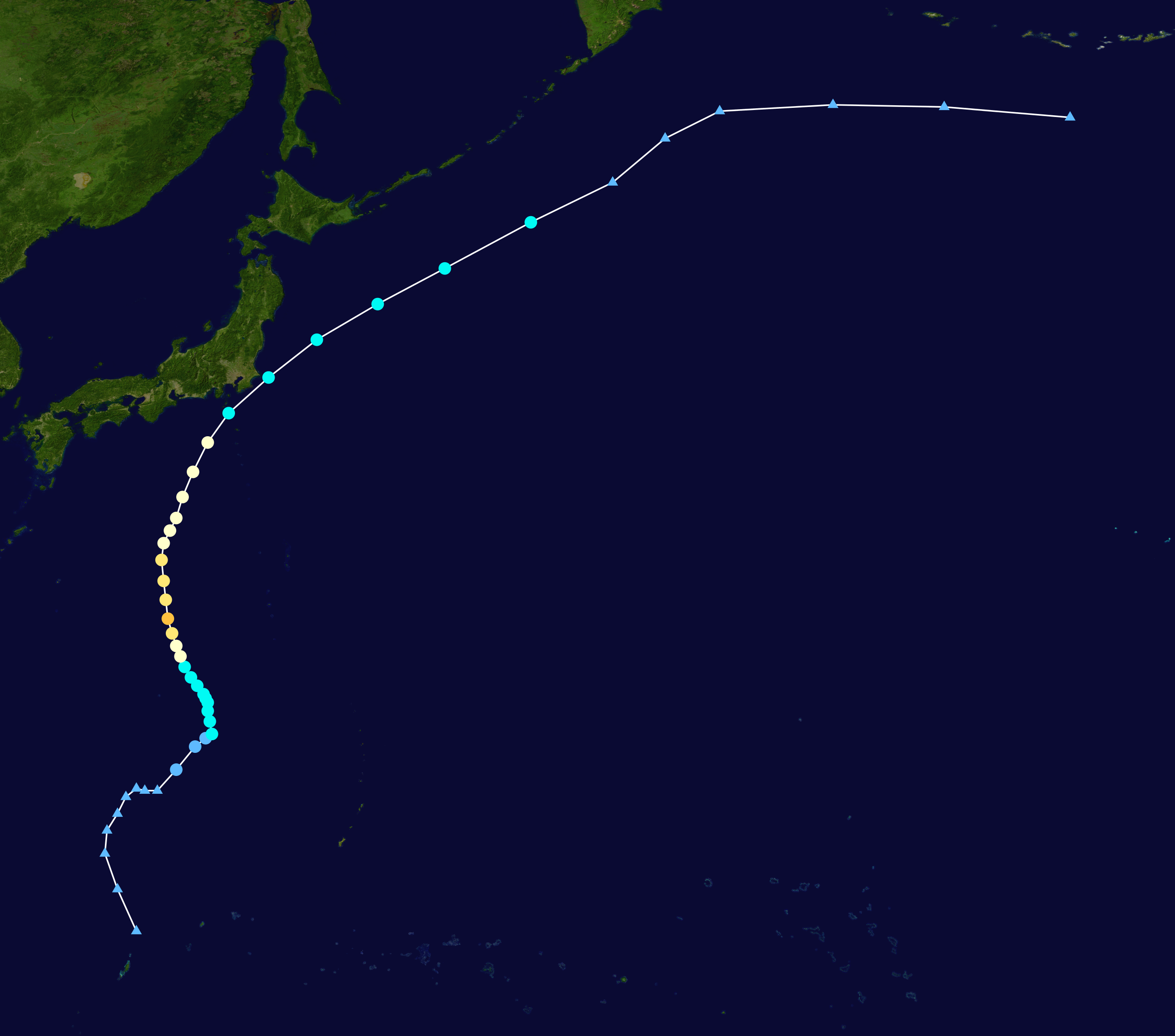 Track map of Typhoon Virginia of the 1971 Pacific typhoon season. The points show the location of the storm at 6-hour intervals. The colour represents the storm's maximum sustained wind speeds as classified in the Saffir–Simpson hurricane wind scale (see below), and the shape of the data points represent the nature of the storm, according to the legend below. Saffir–Simpson hurricane wind scale Tropical depression≤38 mph≤62 km/h Category 3111–129 mph178–208 km/h Tropical storm39–73 mph63–118 km/h Category 4130–156 mph209–251 km/h Category 174–95 mph119–153 km/h Category 5≥157 mph≥252 km/h Category 296–110 mph154–177 km/h Unknown Storm typeTropical cycloneSubtropical cycloneExtratropical cyclone / Remnant low / Tropical disturbance